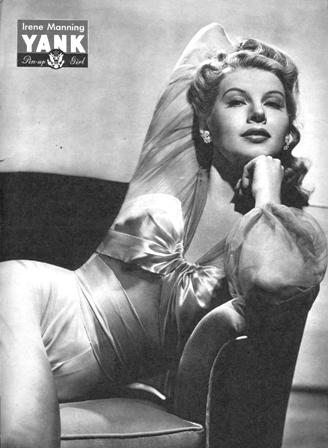 Pin-up photo of Irene Manning for Yank, the Army Weekly, a weekly U.S. Army magazine fully staffed by enlisted men.